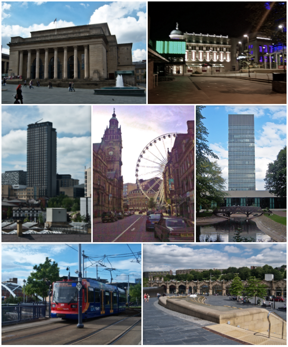 Sheffield montage